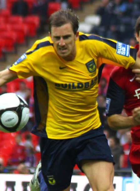 Jack Midson. Image cropped from original at Geograph.